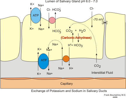 Exchange of Sodium and Potassium in in Salivary duct